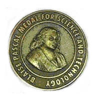 Blaise Pascal Medal